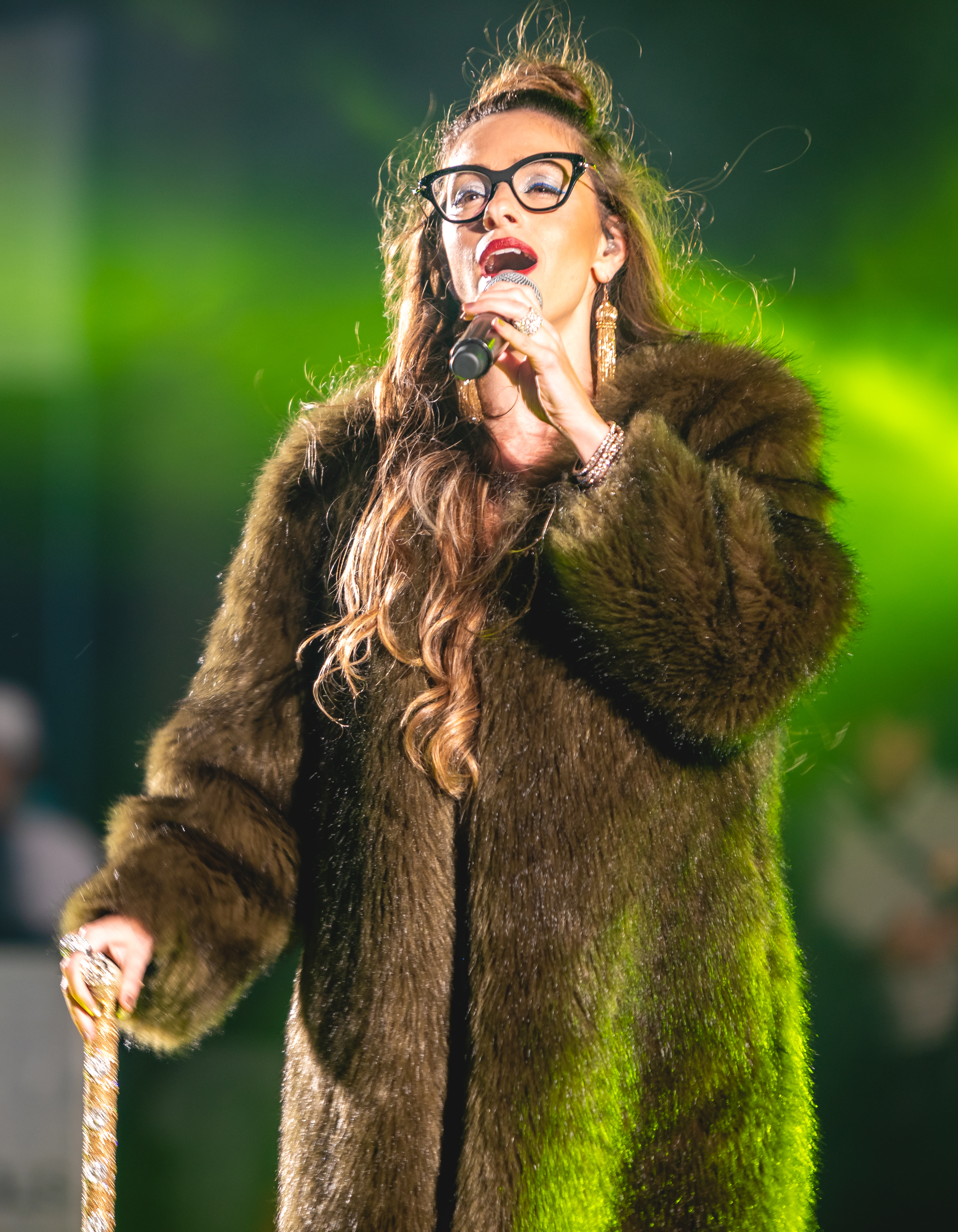 Shefita performing on Yom Ha'atzmaut (Israel Independence Day), May 8, 2019